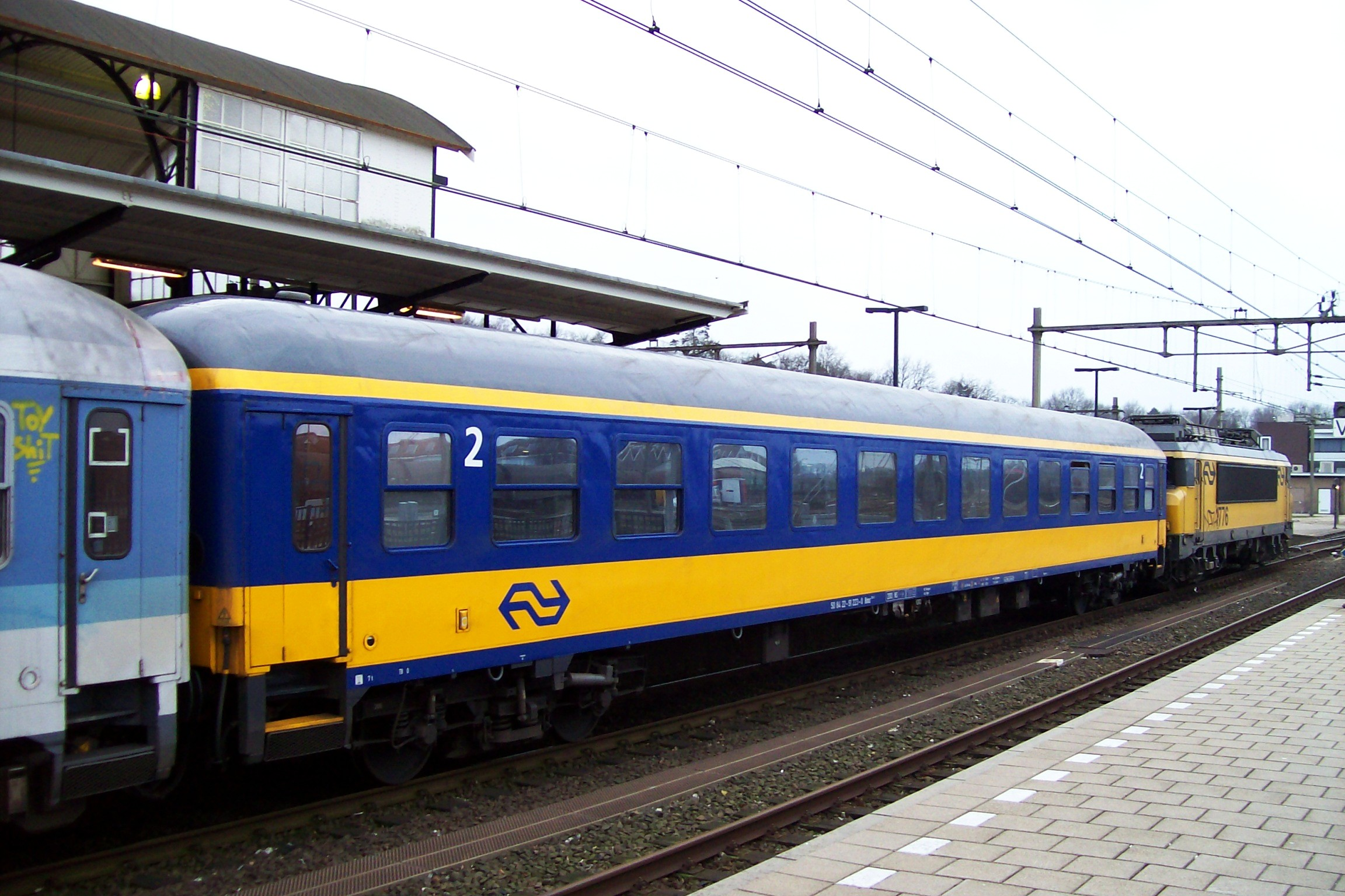 Bimz 264.9 (formerly Interregio) from Deutsche Bahn (DB) rented to Nederlandse Spoorwegen (NS) and running in Dutch colors as an "ICL" coach.